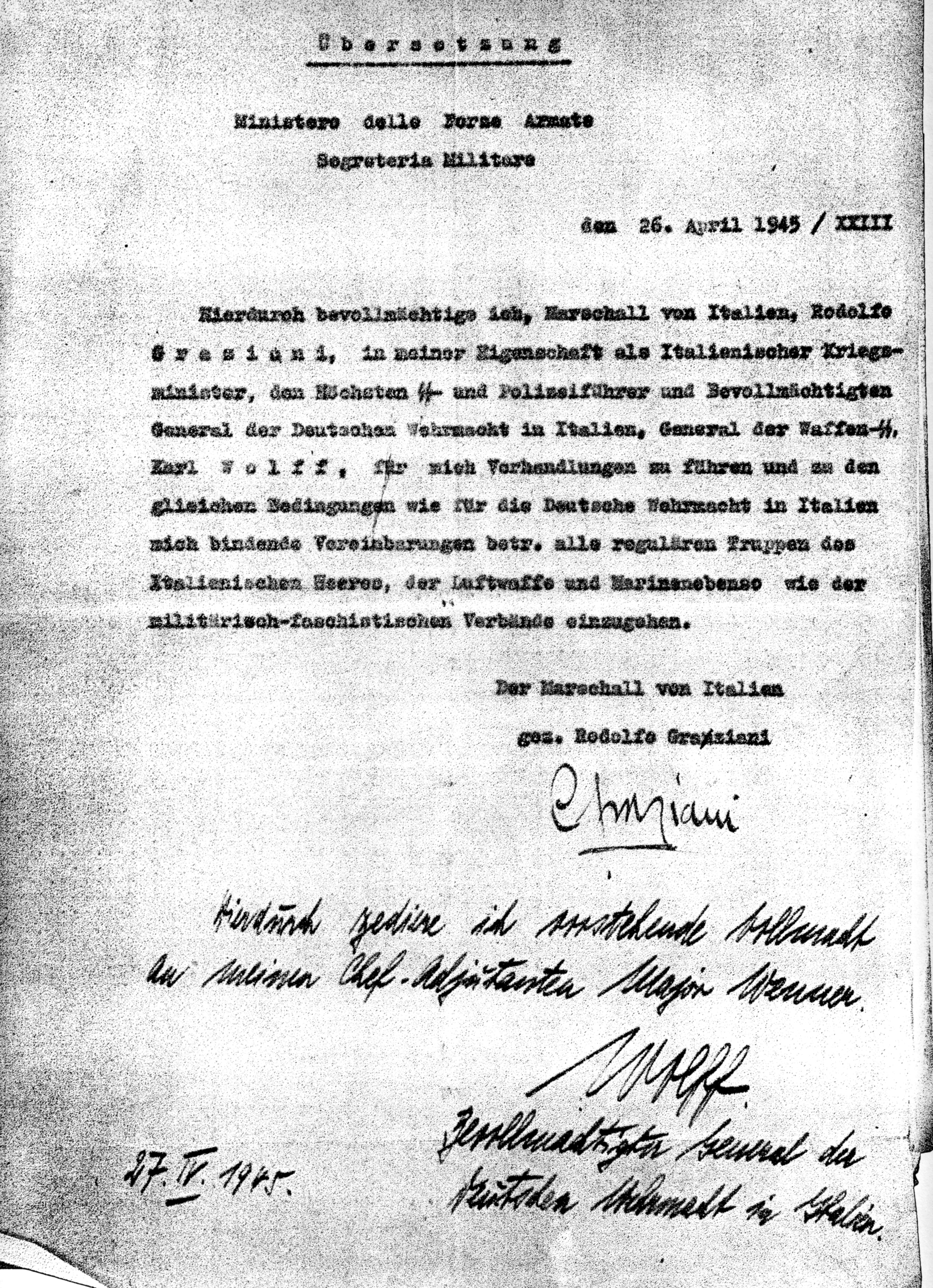 German translation of Graziani's Proxy for the Caserta surrender